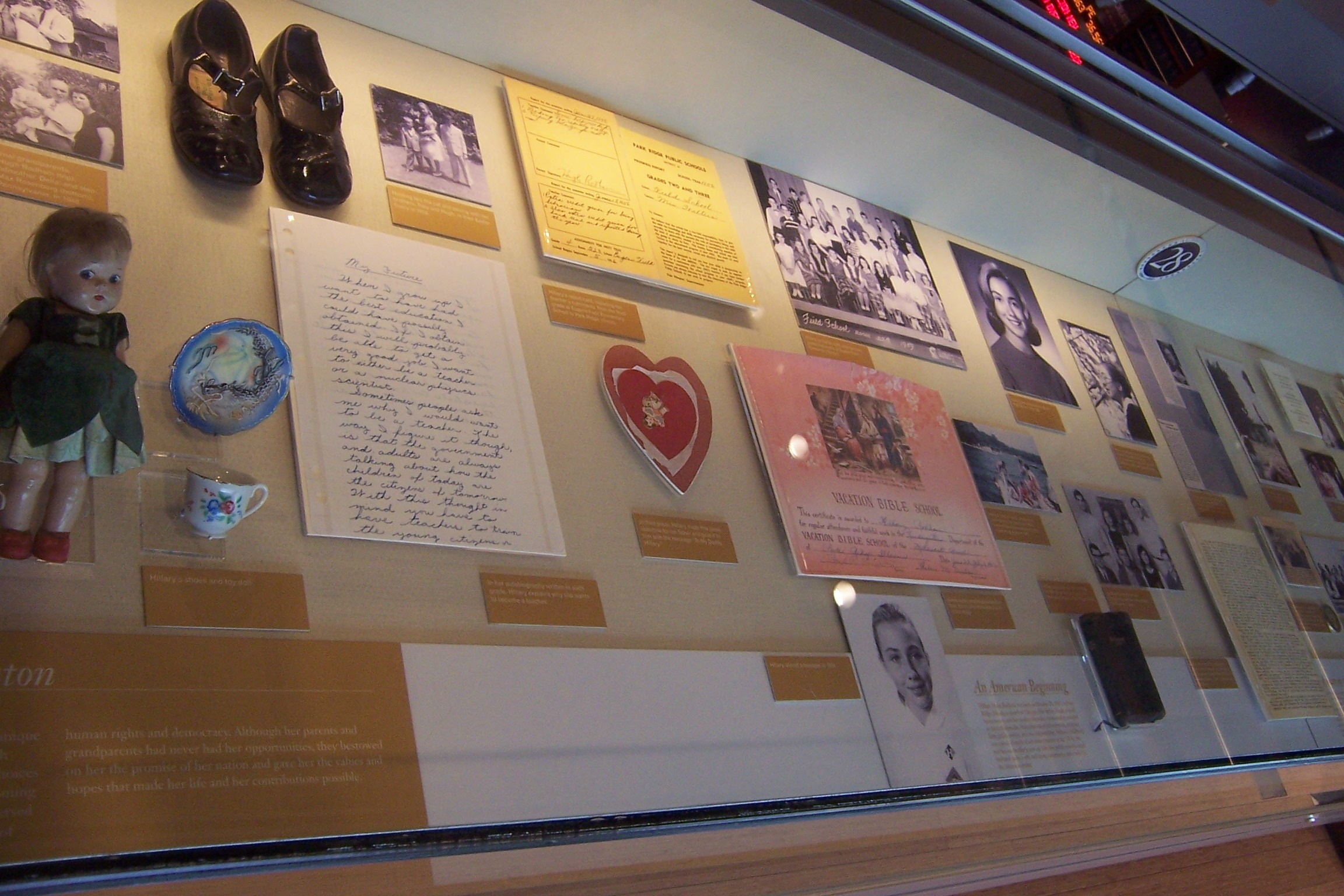 An exhibit portraying Hillary Rodham Clinton's early years, on display at the Clinton Presidential Center in Little Rock, Arkansas